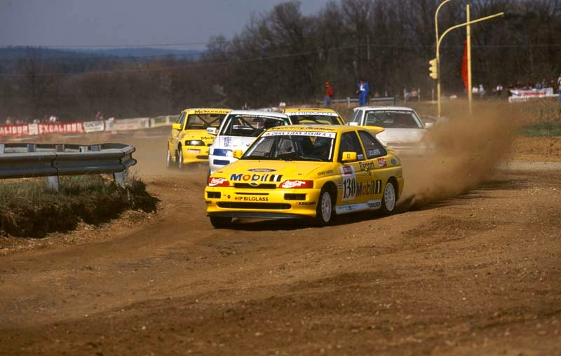 Norwegian Henning Solberg and his Group N Ford Escort RS Cosworth pictured during the 1995 round of the FIA European Championship for Rallycross Drivers at the Nordring at Fuglau near Horn in Austria. Solberg eventually finished second overall in the former Division 1 category, his best international Rallycross result ever.